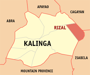 Map of Kalinga showing the location of Rizal